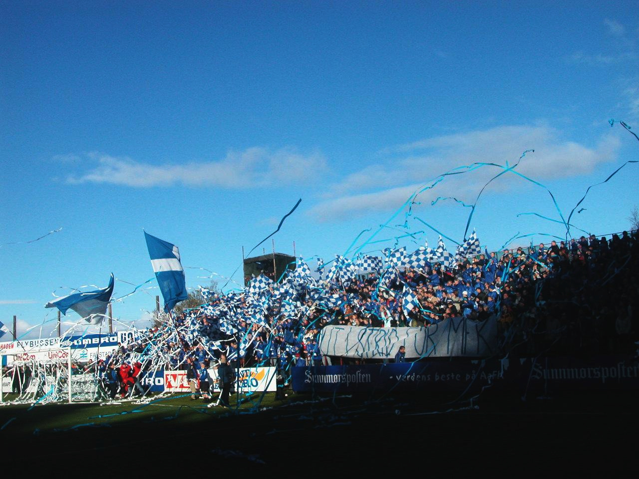 Molde F.C. supporters Tornekrattet in Ålesund, Norway on October 18, 2003.